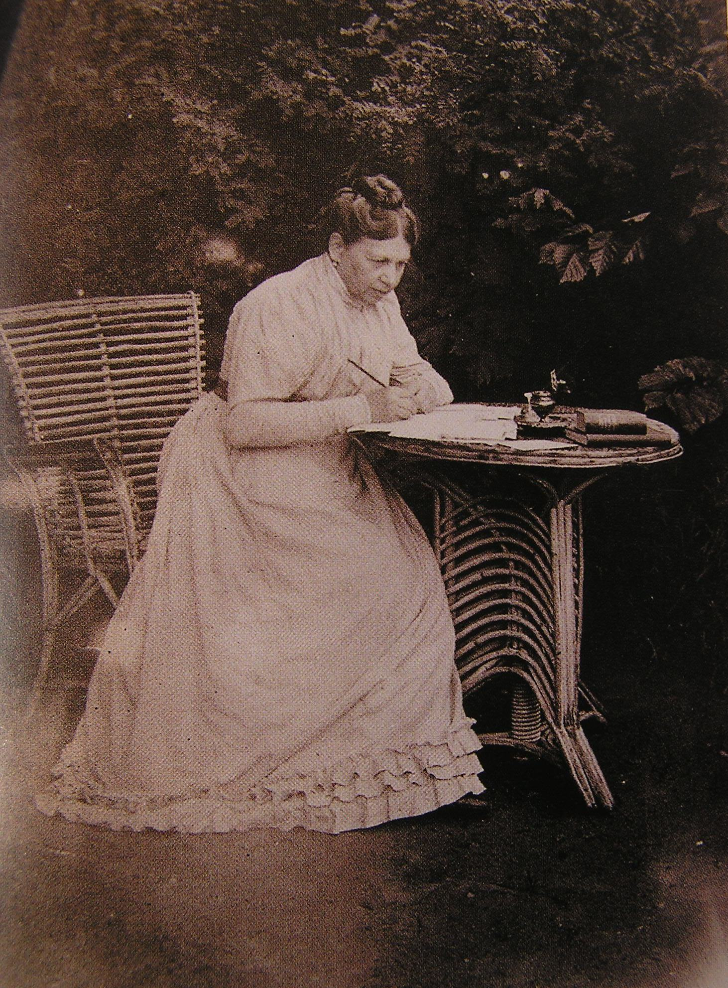 Sophia Tolstaya